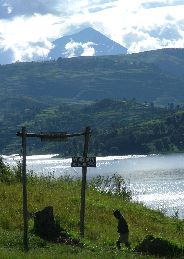 Bufuka, in the southwest corner of Uganda